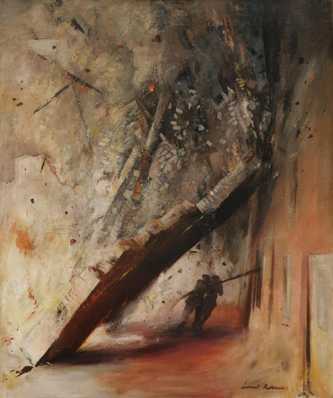 A collapsing wall disects the scene as it is about to bury two firemen. Debris, fire and smoke fill the view.